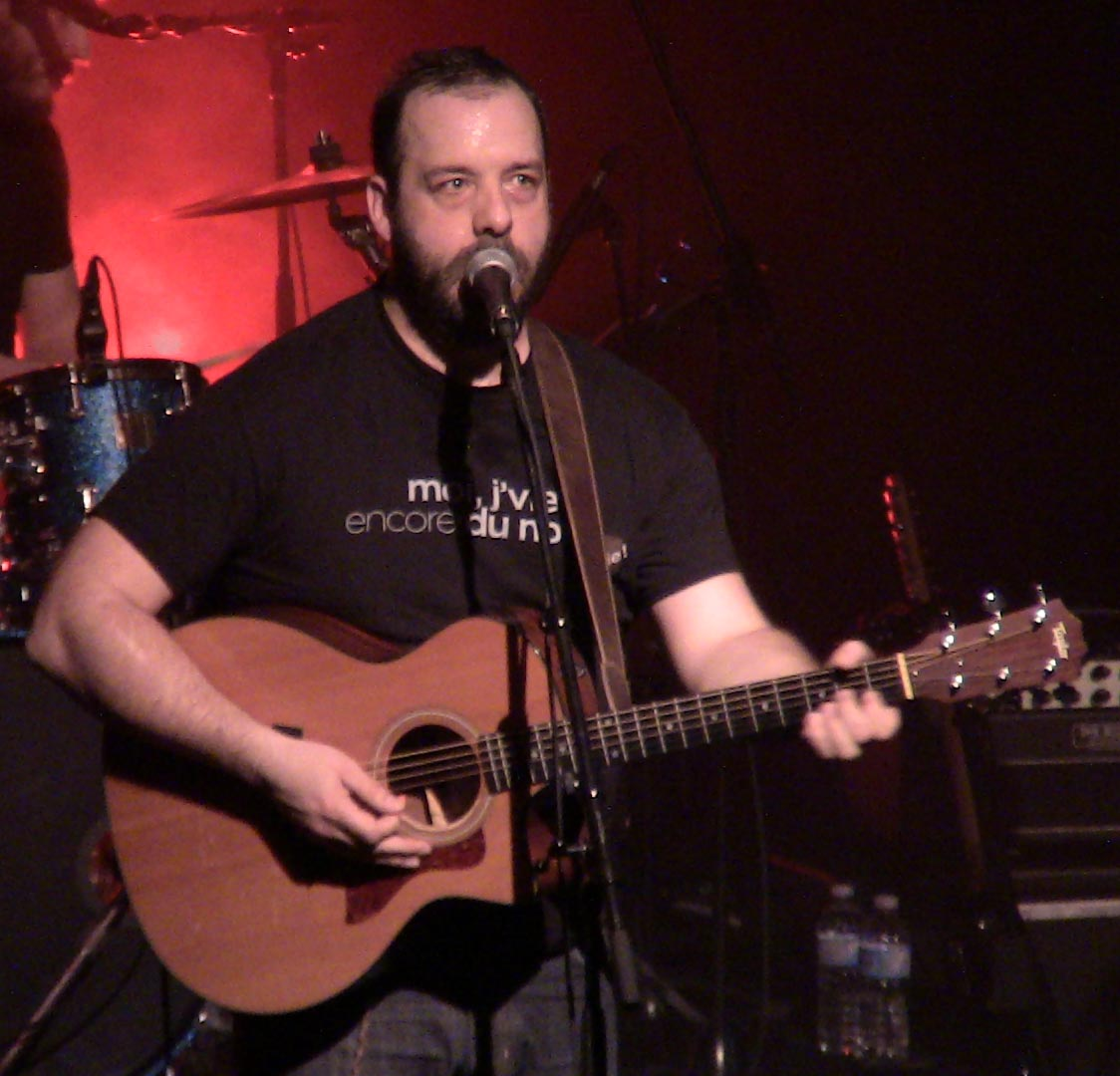 Stéphane Paquette for the 40th edition of french music festival La Nuit sur l'étang, in Sudbury, on March 23rd, 2013.